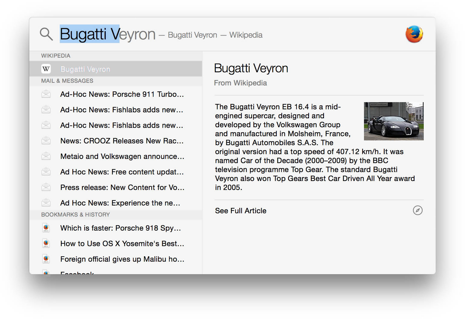 Spotlight in OS X Yosemite showing Wikipedia article on Bugatti Veyron. Icons of Safari were replaced with Firefox icon. (it is possible to change the default web browser in OS X, so it's accurate.)